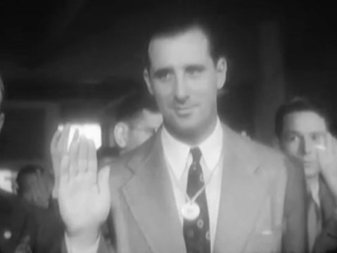 Greenberg being sworn into Army with other recruits.